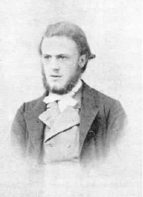 Thorvald Nicolai Thiele